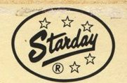 Starday Records logo.